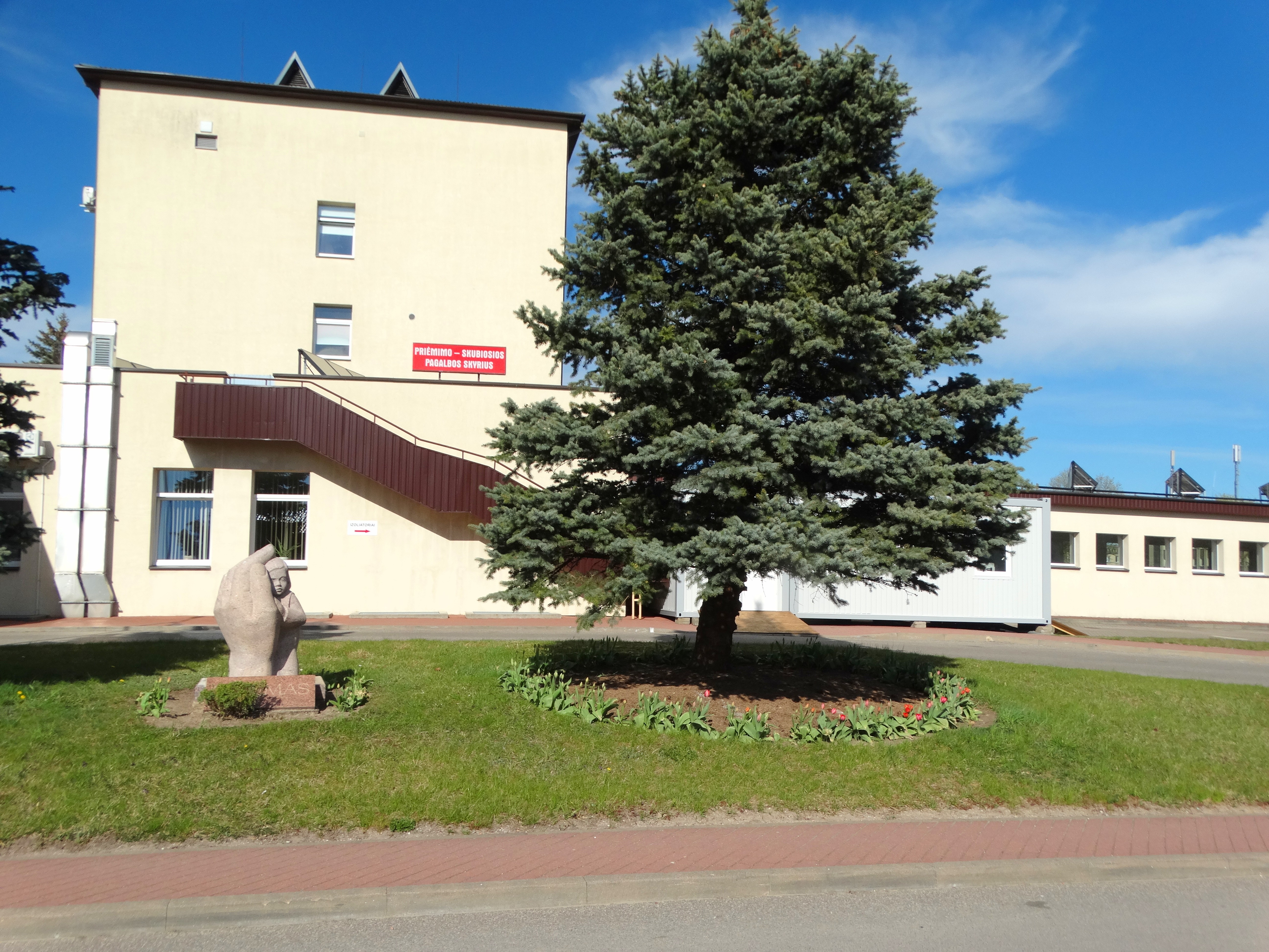 Hospital, Tauragė, Lithuania